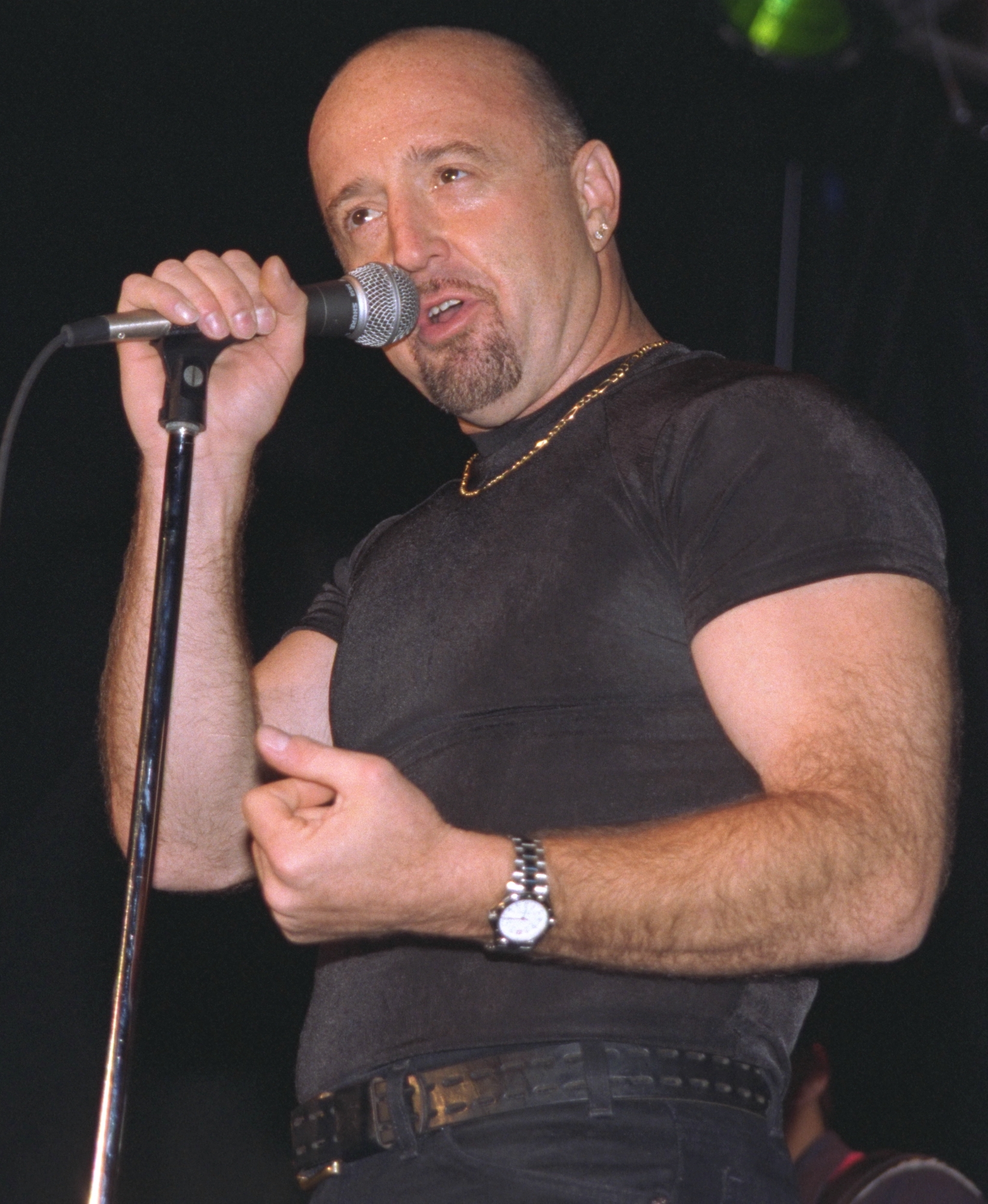 Kim Wilson performing at the Riverwalk Blues Festival